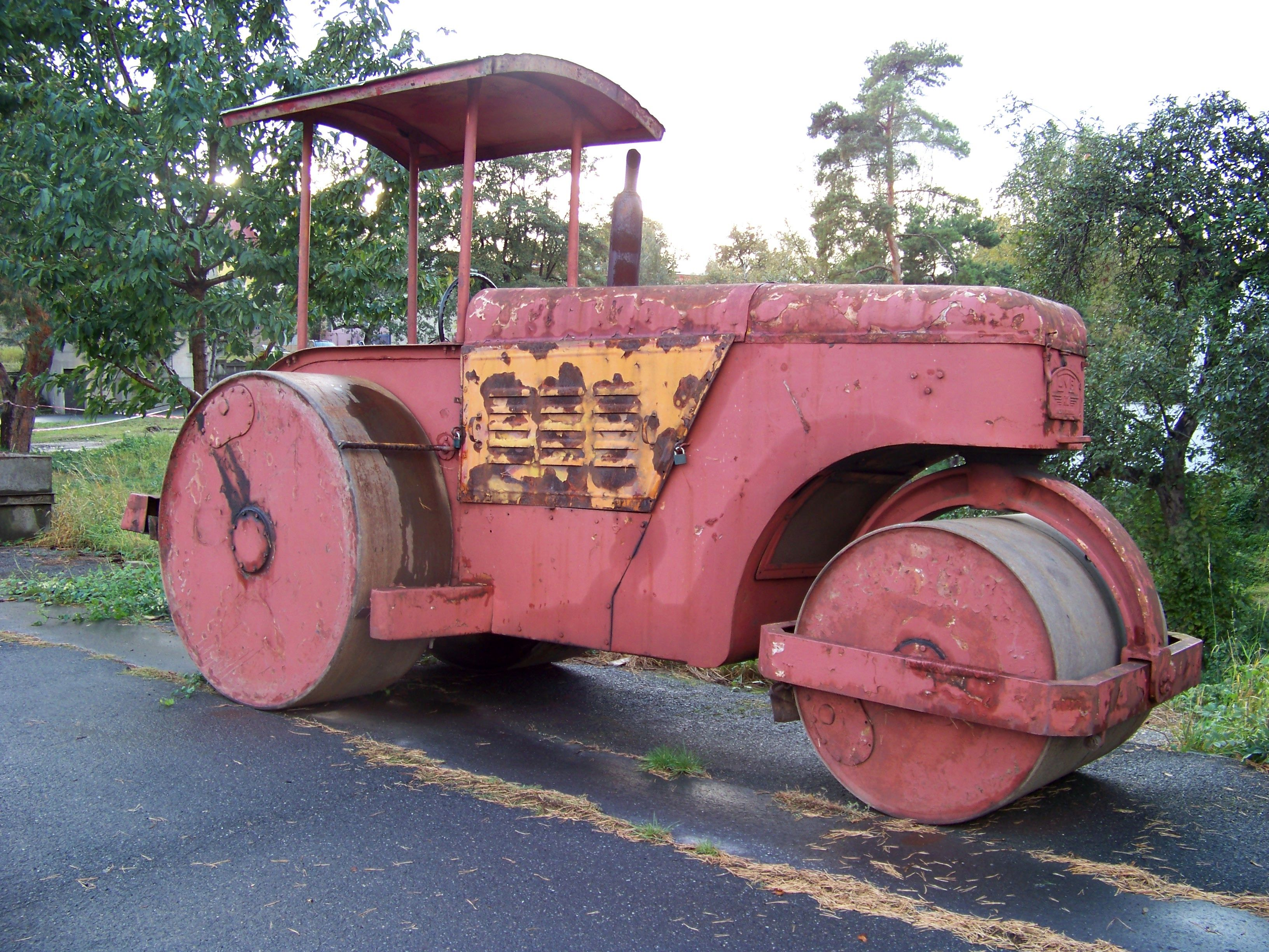 Bubeneč, Prague, the Czech Republic. Central Wastewater Treatment Plant and Ecotechnical Museum. Some roller.